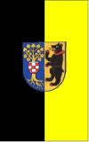 Fahne Sollstedt